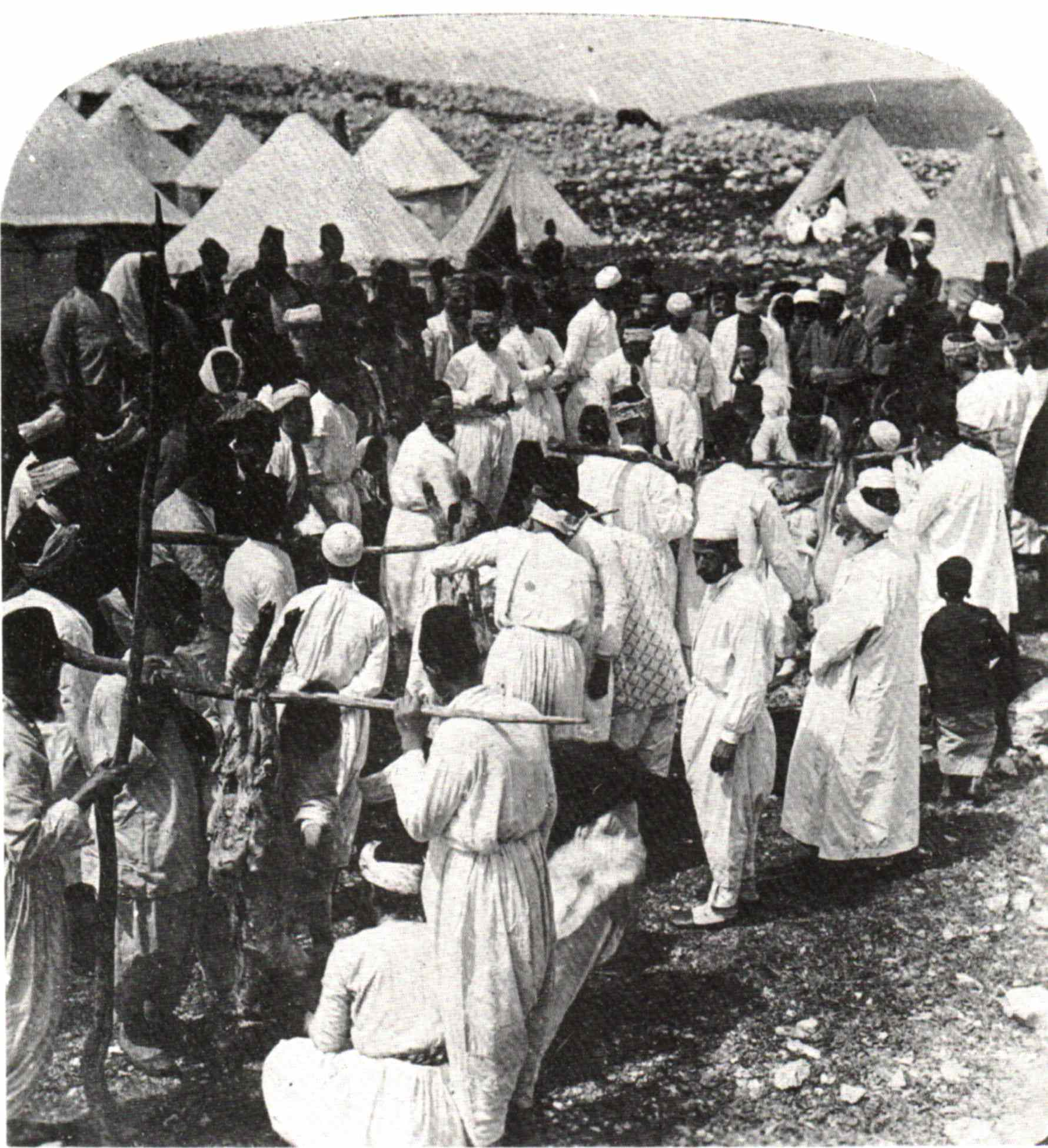 Samaritan Passover (1900)